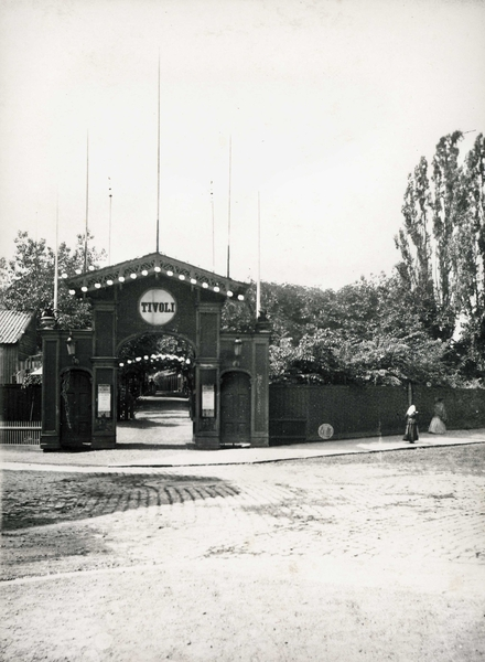 The entrance to Oslo amusement park Christiania Tivoli.